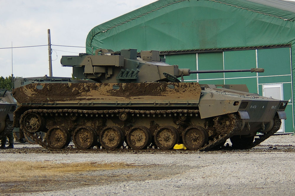 JGSDF IFV Type89.Taken by Los688,in Narashino,Japan,at 07-Jan-2007,JGSDF 1st Airborne Brigade 2007 first drop manuver.PD-self ja:89式装甲戦闘車 2007年01月07日、習志野演習場で撮影。スカートがあげられている。